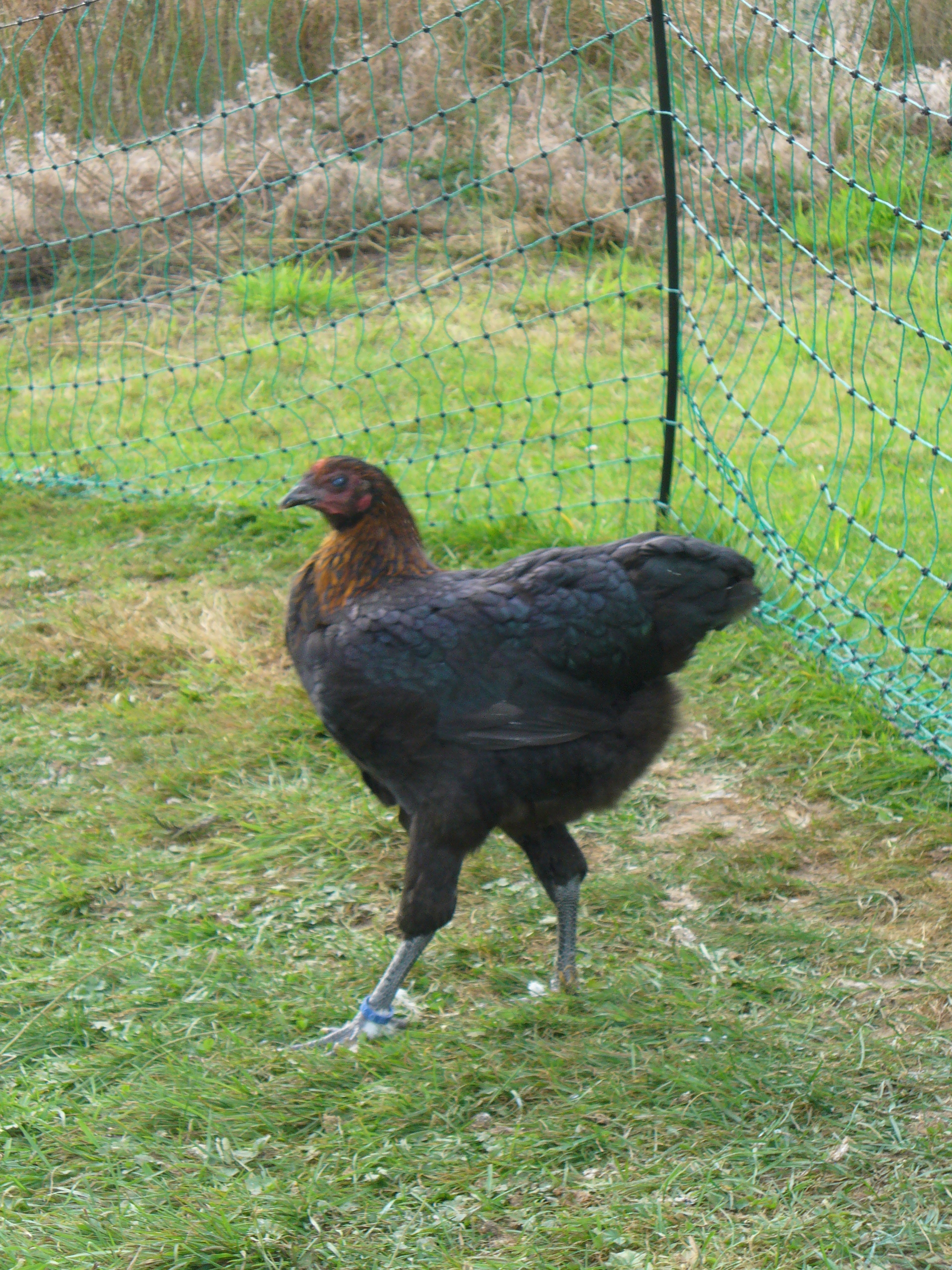 Side view of a young hen (gold-birchen German Langshan)